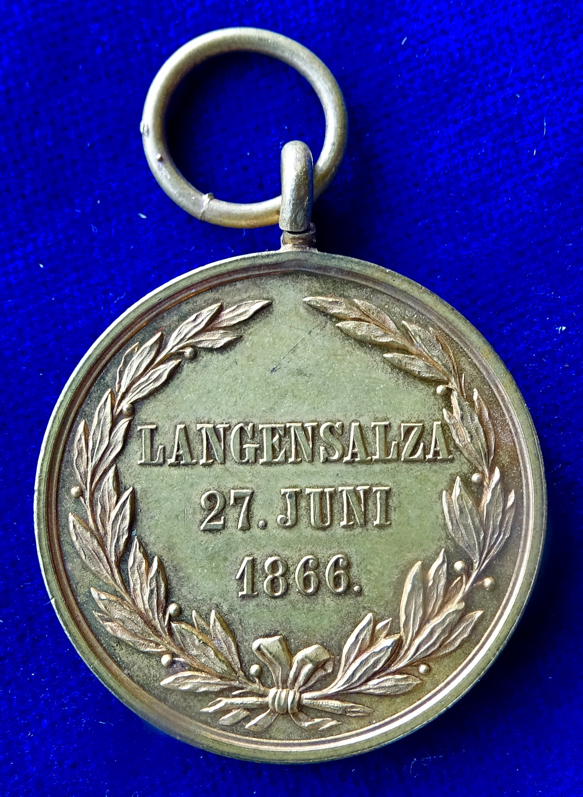 Gilt bronze, d. = 36 mm. George V, King of Hanover, 1851-1866 He was the grandson of King George III of Great Britain. As a legitimate male-line descendant of George III, he remained a member of the British Royal Family, and second in line to the British throne, until the birth of Queen Victoria's first child, Victoria, Princess Royal, in 1840. Contrary to the wishes of the parliament, Hanover joined the Austrian camp in the war. As a result, the Prussian army occupied Hanover and the Hanoverian army surrendered on 29 June 1866, the King and royal family having fled to Austria. The Prussian government formally annexed Hanover on 20 September, but the deposed King never renounced his rights to the throne or acknowledged Prussia's actions. From exile in Gmunden, Austria, George V appealed in vain for the European great powers to intervene on behalf of Hanover. Head l., around: "GEORG V v. G. G. KOENIG v. HANNOVER"/3 lines between 2 laurel branches: "LANGENSALZA 27. JUNI 1866.". Edge letttering: "C. RÖHRS". v. Heyden 235. Medallist: (Heinrich) Jauner, 1833 Wien - 1912 Vienna, Austria. Condition: UNCIRCULATED.